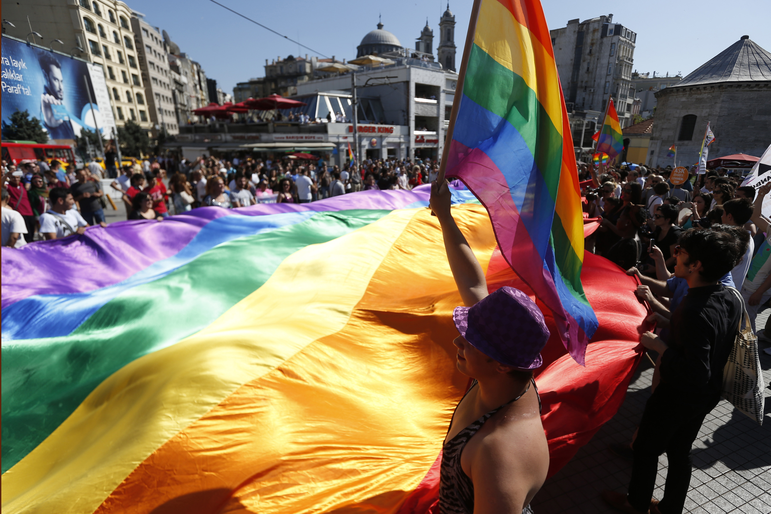 People marchd around with LGBTQ+ flags in Ordus inner city